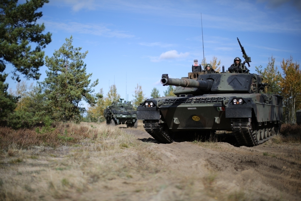 Italian Army - An Ariete main battle tank from the 4th Tank Regiment and a Canadian Army LAV III vehicle during exercise "Silver Arrow" in Latvia in September 2019